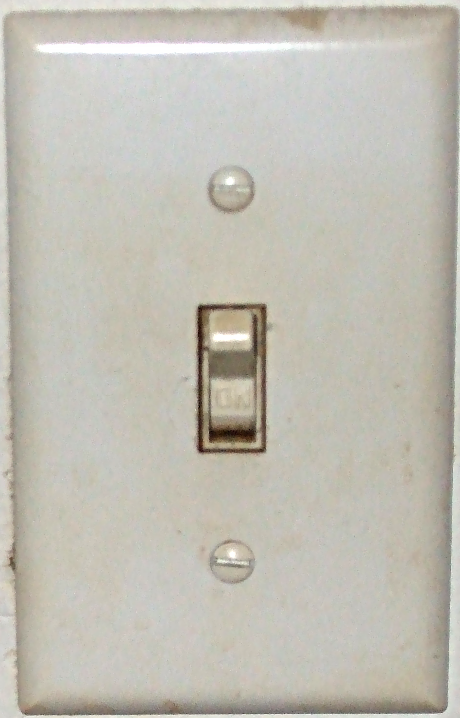 A picture of a Toggle light switch.